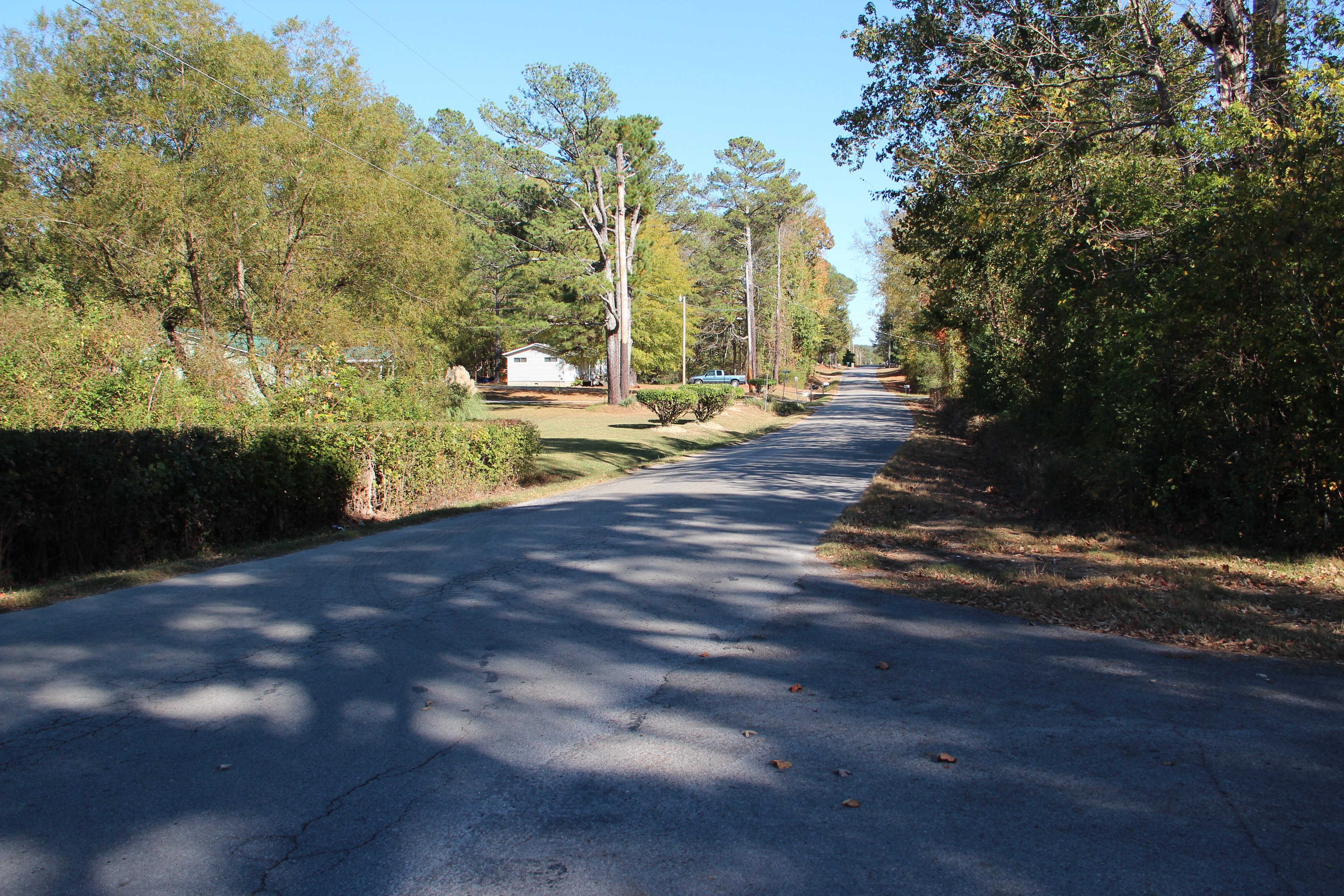 Center Point Road, Noble, Georgia